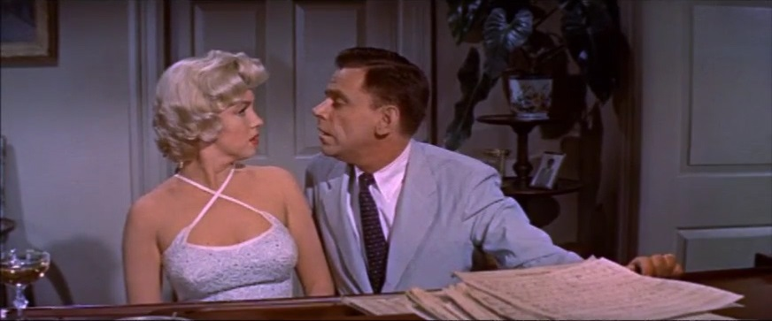 Tom Ewell leans towards Marilyn Monroe for a kiss in the theatrical trailer of the 1955 film The Seven Year Itch directed by Billy Wilder.